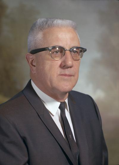 Representative William J. S. May, 1967